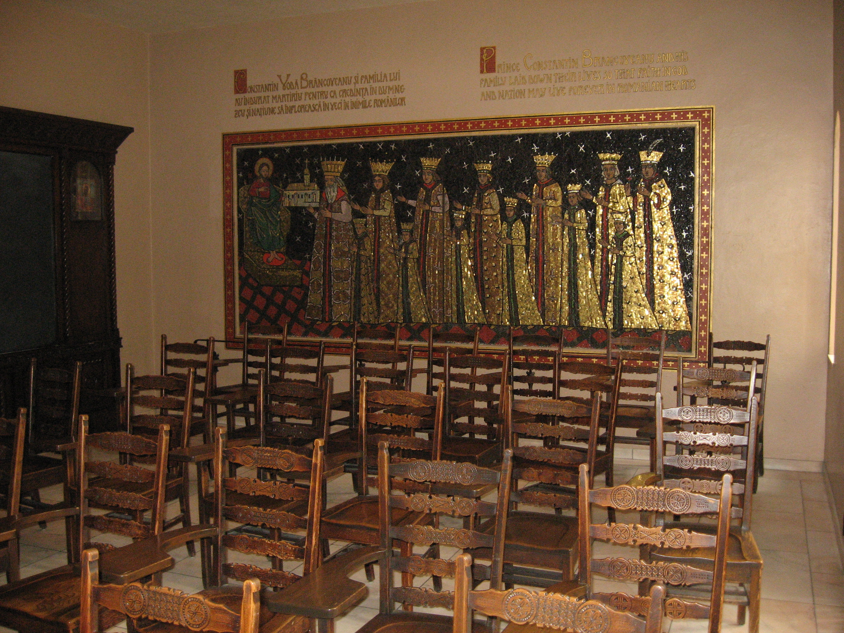 Romanian Nationality Room of the Nationality Rooms at the University of Pittsburgh's Cathedral of Learning